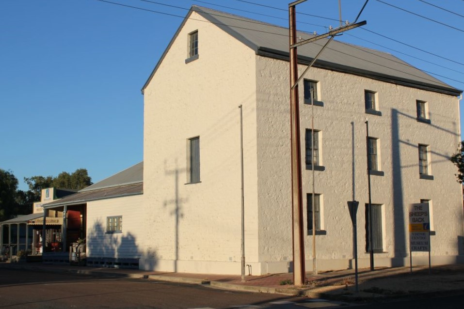 The Sheep's Back Museum